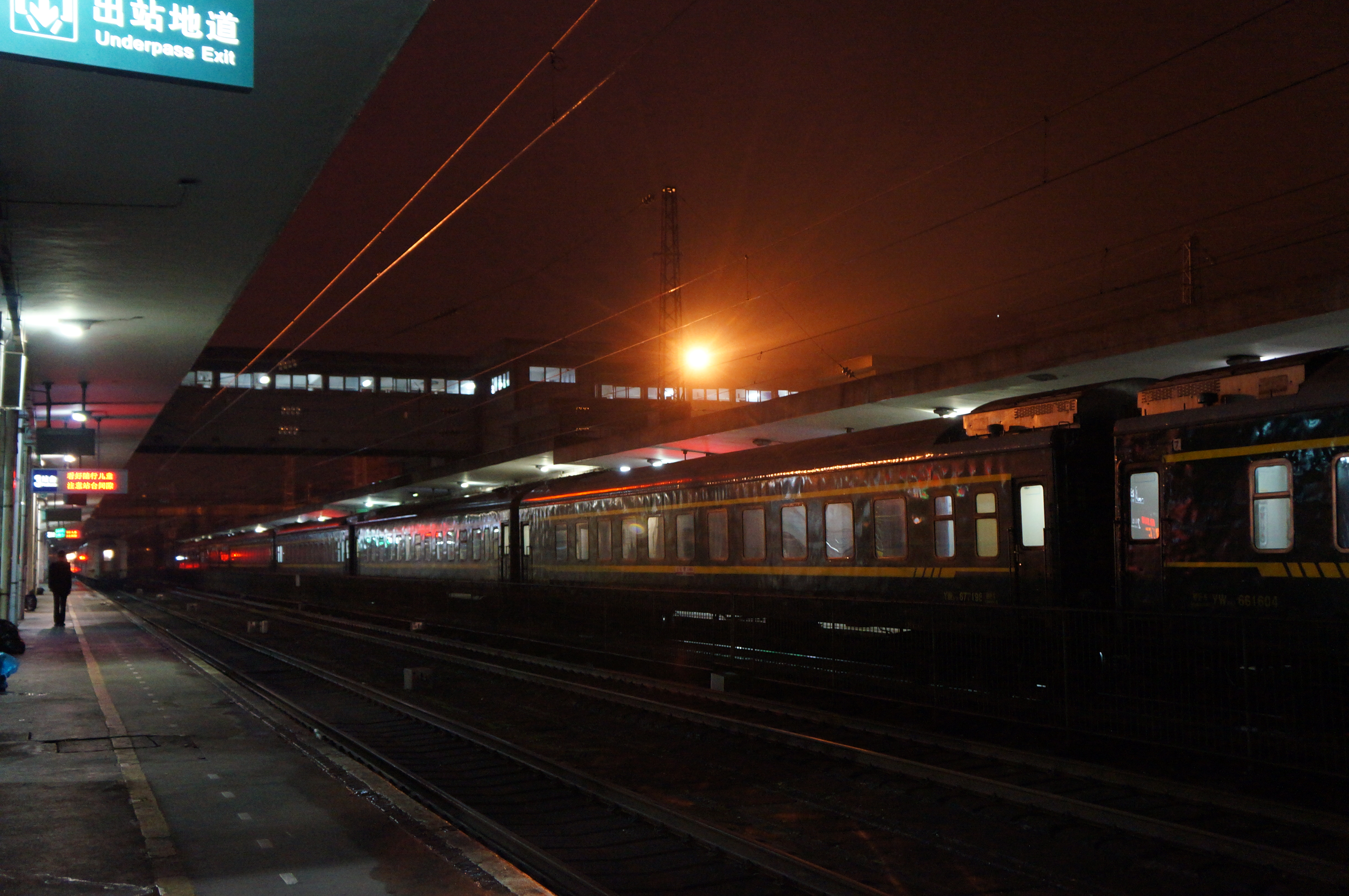 201609 Coaches of K237 (Taiyuan to Shenzhenxi) at Zhuzhou Station